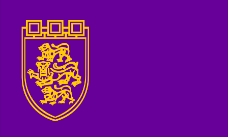 Flag of the city of Svishtov, Veliko Tarnovo Oblast, Bulgaria. Own work.